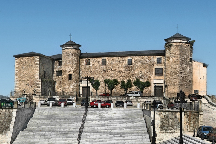 Cropped version of File:Palacio Ducal de Béjar HDR.jpg